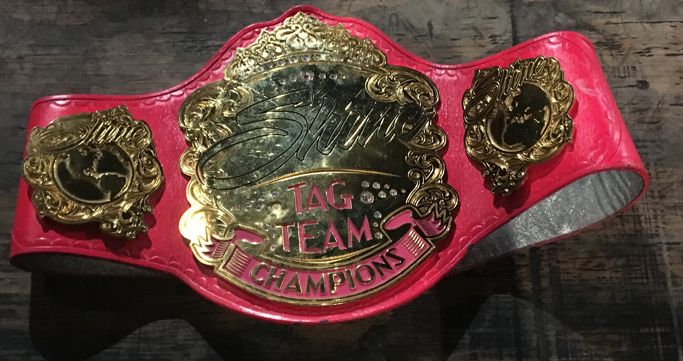 Shine Wrestling Tag Team title belt